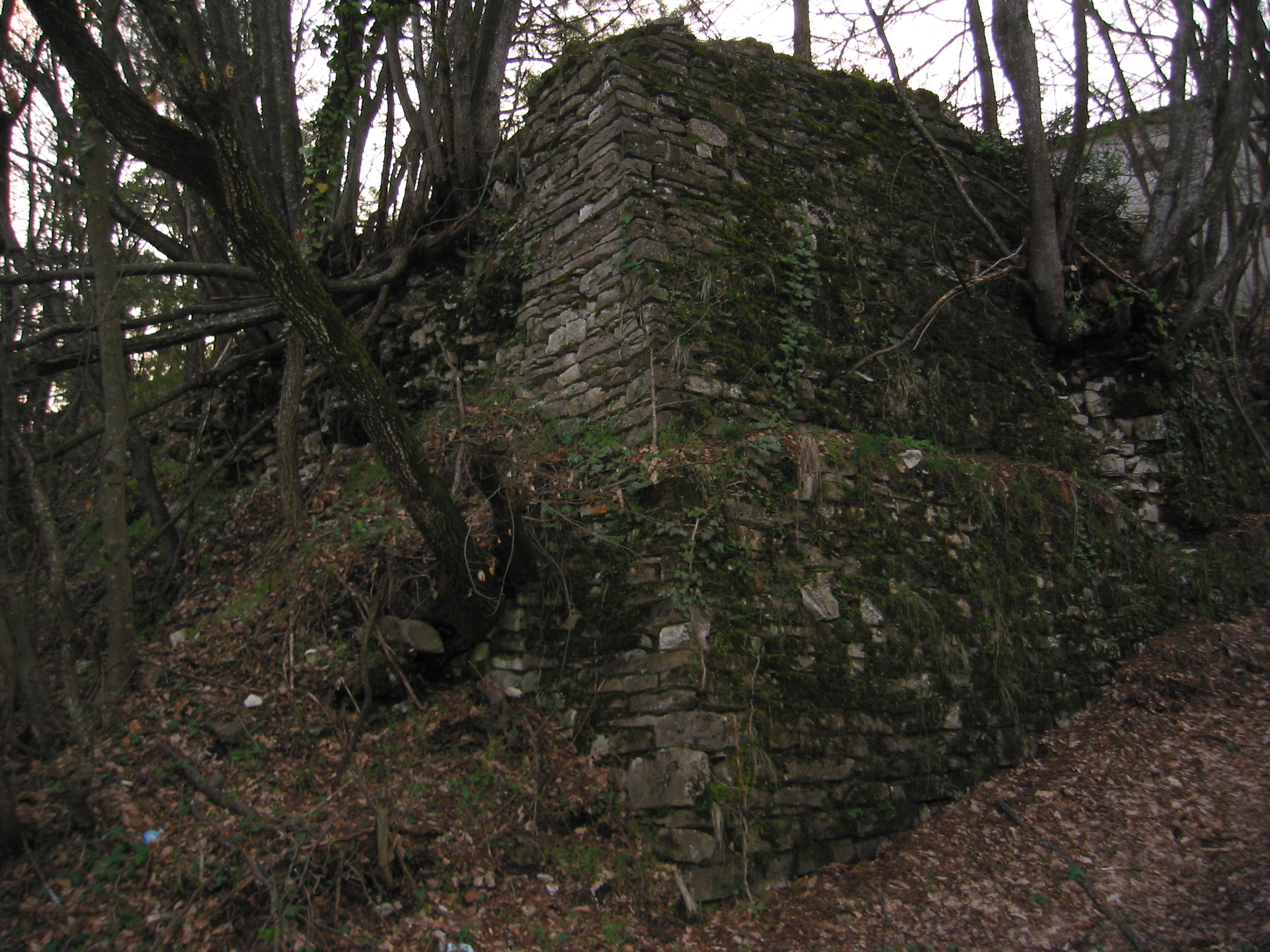 Beduzzo: wall of the castle